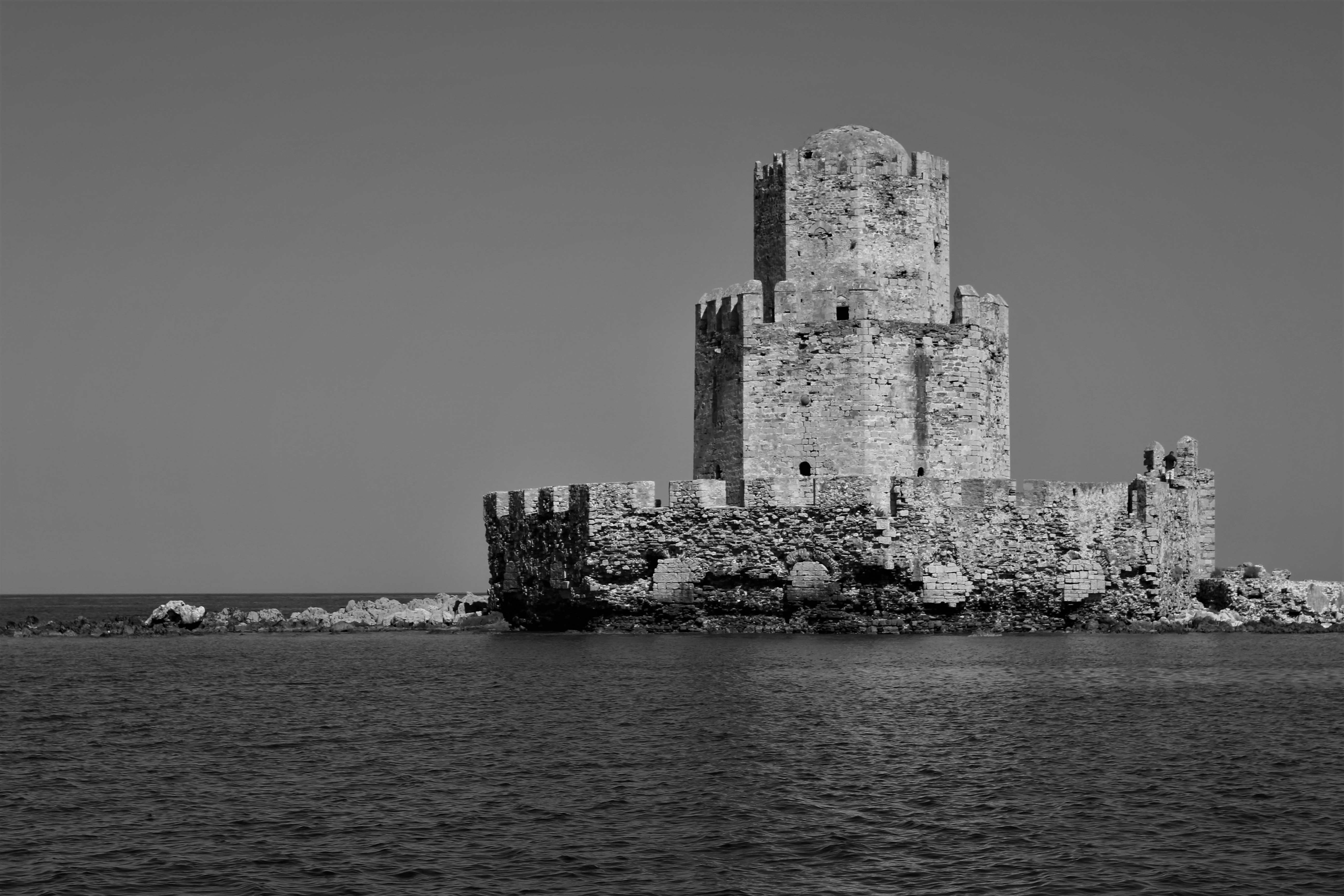 Methoni castle«Κάστρο Μεθώνης»